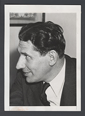 Charles F. West, congressman from Ohio.